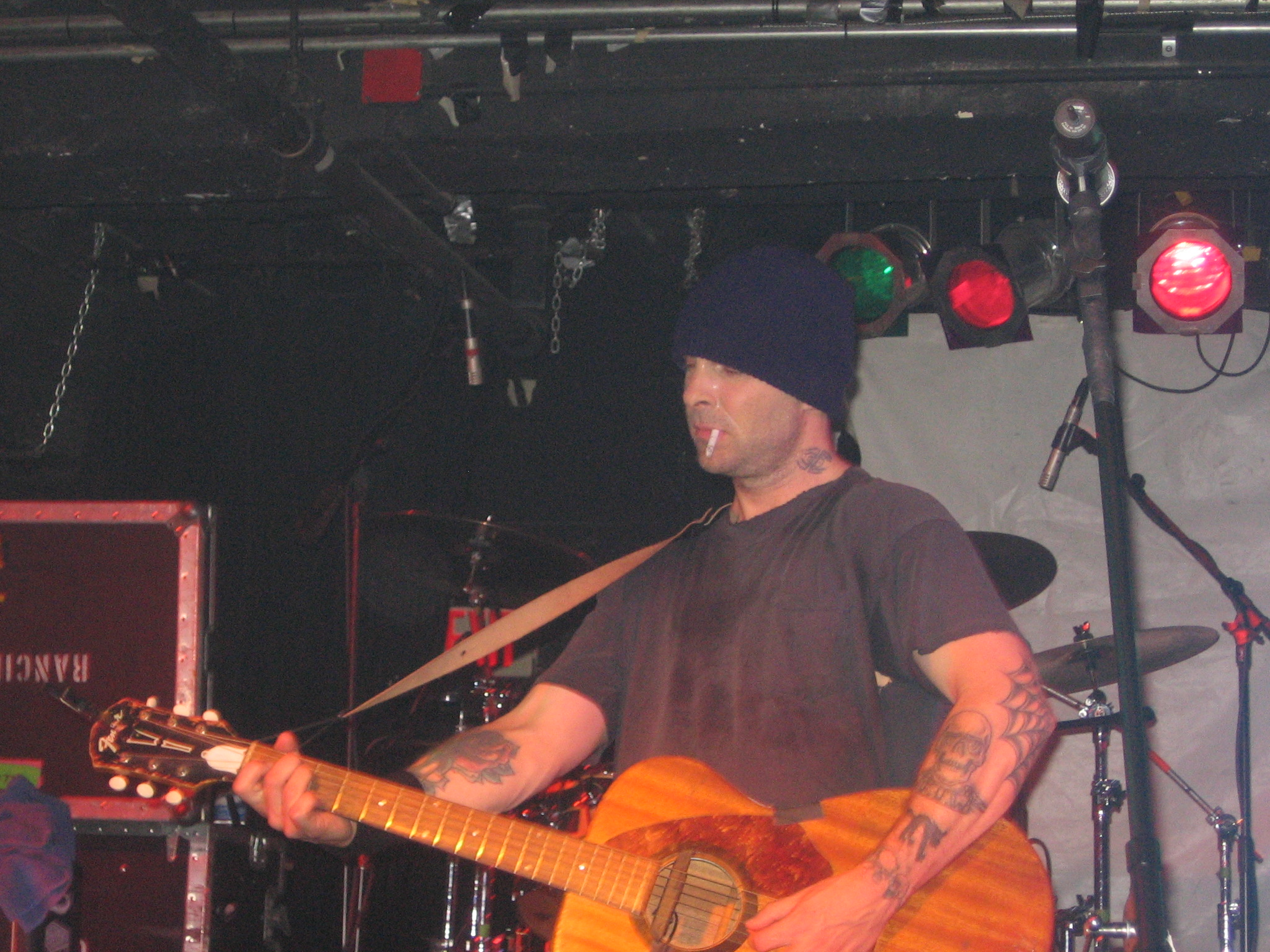 Picture taken at Rancid concert on August 17, 2006.